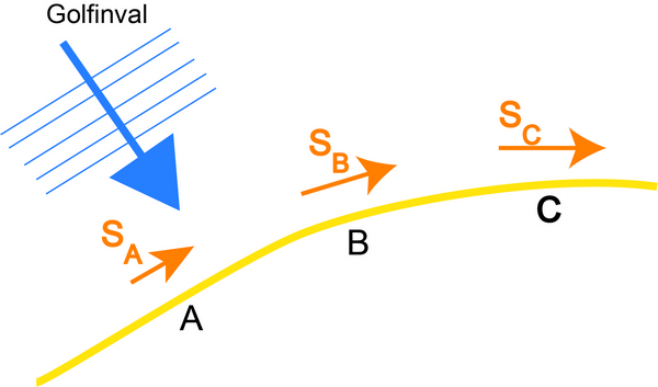 Variation of longshore transport along a curved coast due to obliquely approaching waves